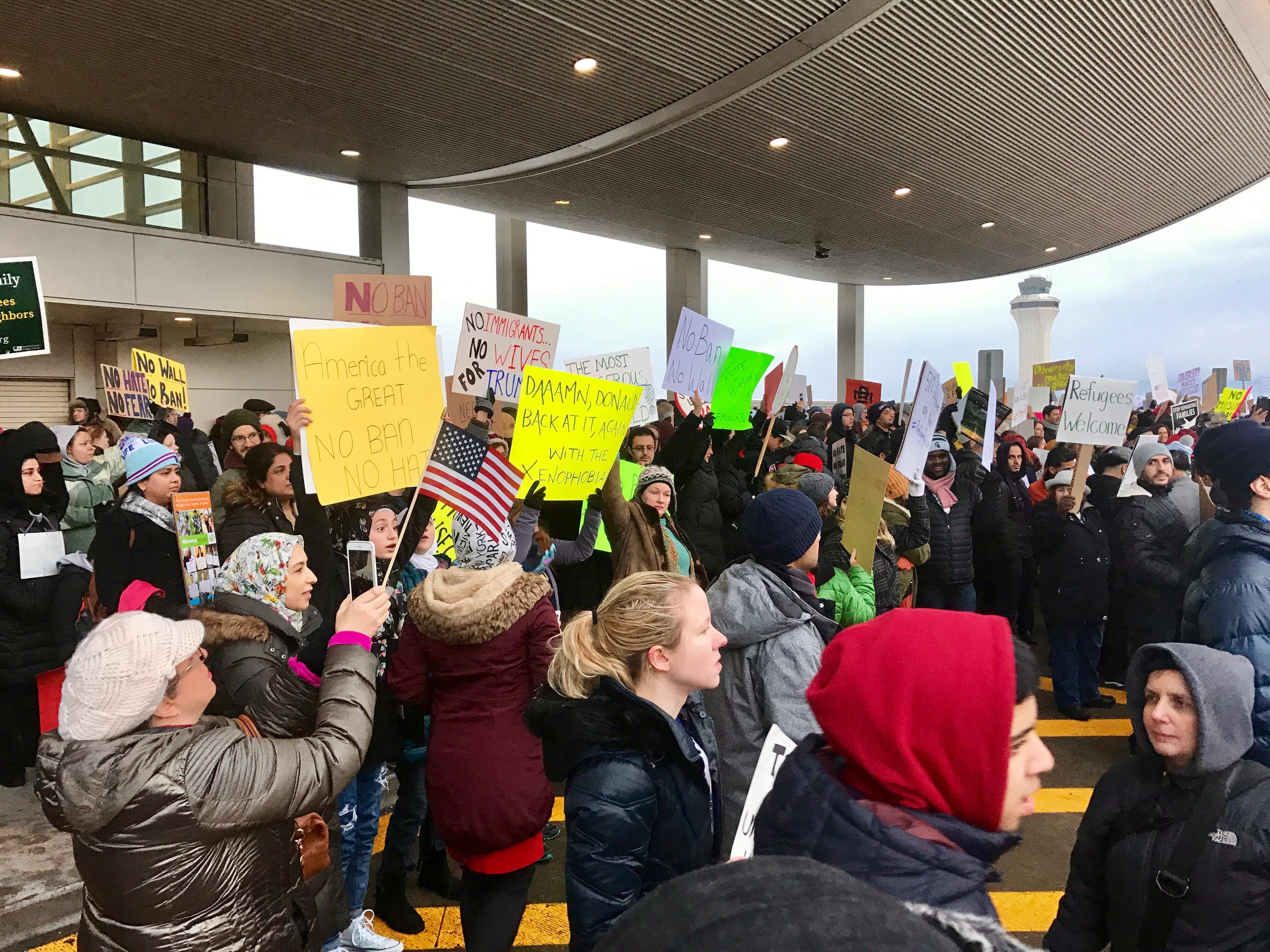 Emergency protest against Muslim ban at Detroit Metropolitan Wayne County Airport's McNamara Terminal on 29 January 2017.